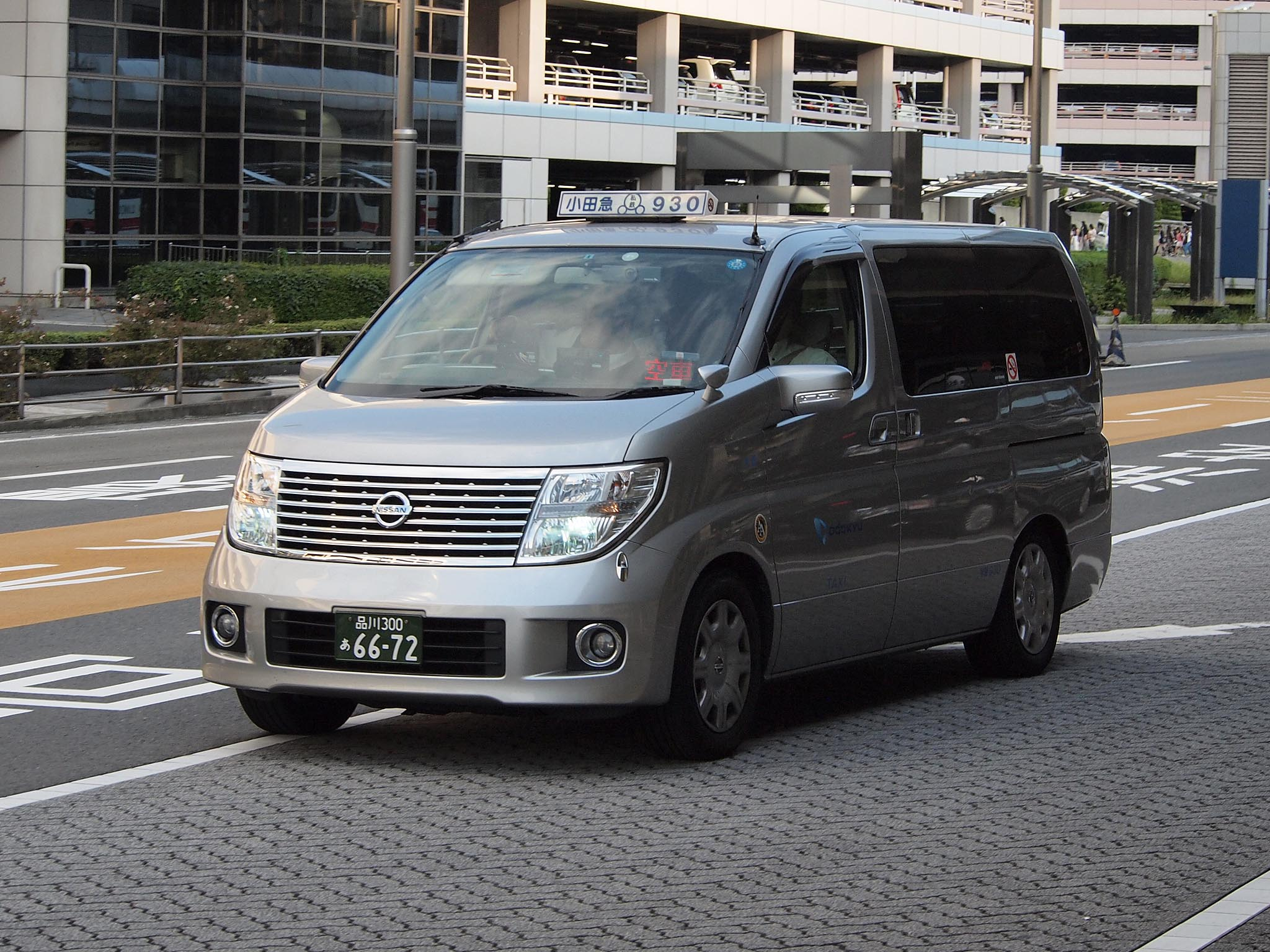 Fleet of Odakyu Kotsu, named "Jumbo Taxi". Model: Nissan Elgrand E51 License plate: TKS300 A6672 Place: Neighbor of Hyatt Regency Tokyo, Shinjuku ward, Tokyo Japan